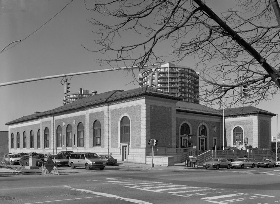 Stamford Post Office, 421 Atlantic Street, Stamford (Fairfield County, Connecticut) Object location41° 02′ 59″ N, 73° 32′ 22″ W